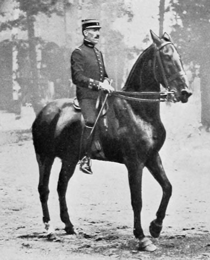 Jean Cariou at the 1912 Summer Olympics